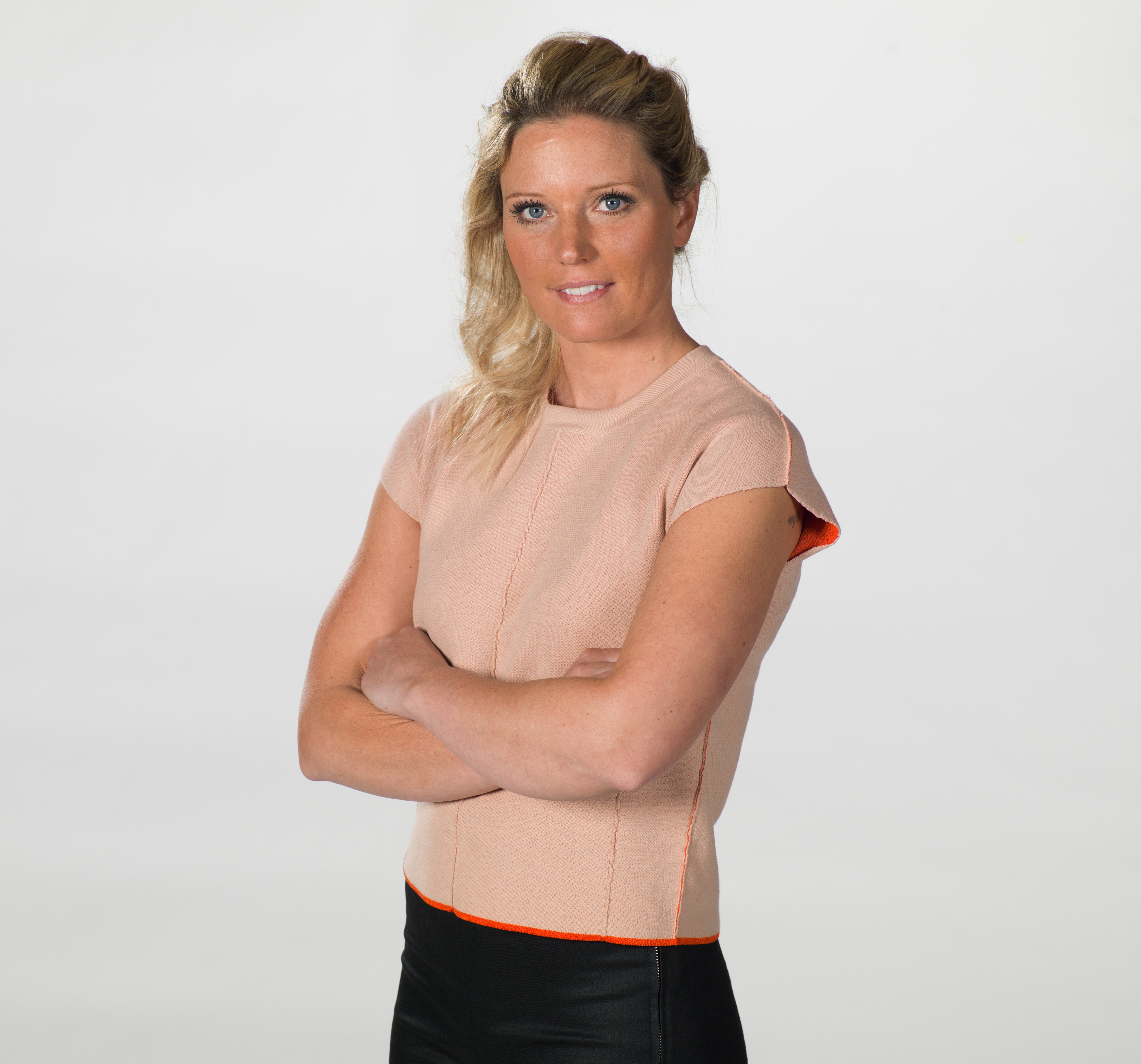 Sofia Aronsson, 2015-03-23.